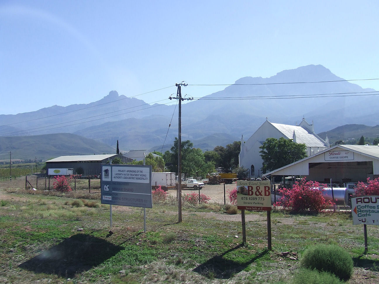 On the right is the Dutch Reformed Church. There are Ladysmiths in KwaZulu-Natal, Canada and the USA – but there's only one Ladismith!